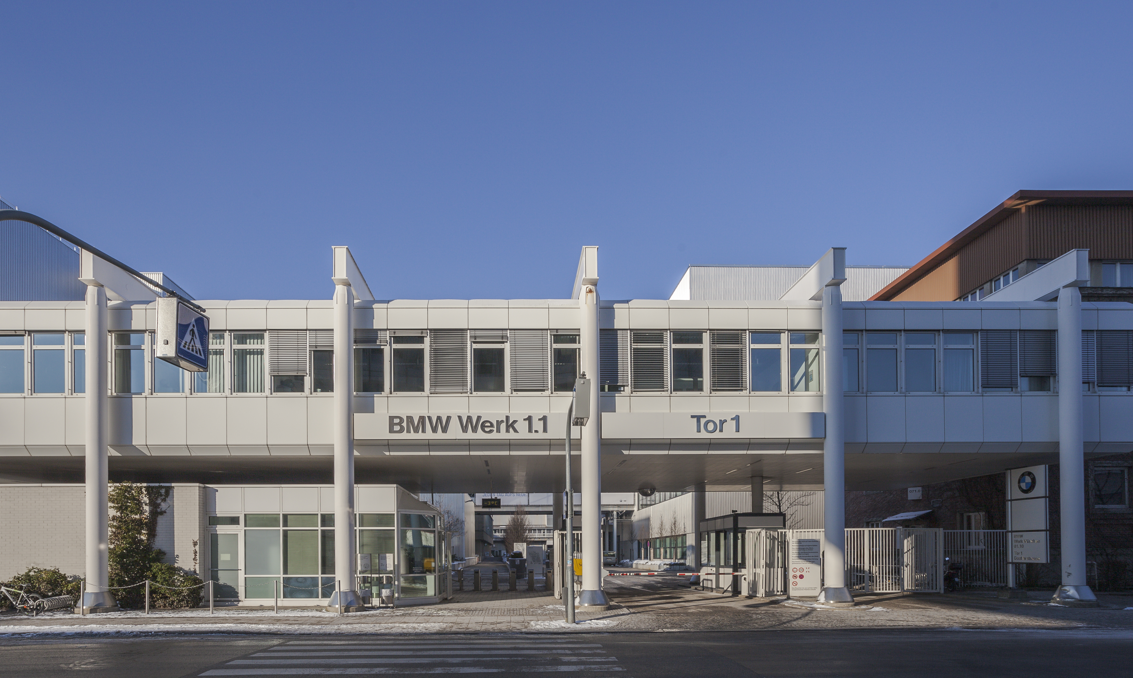 BMW plant, Munich, Germany